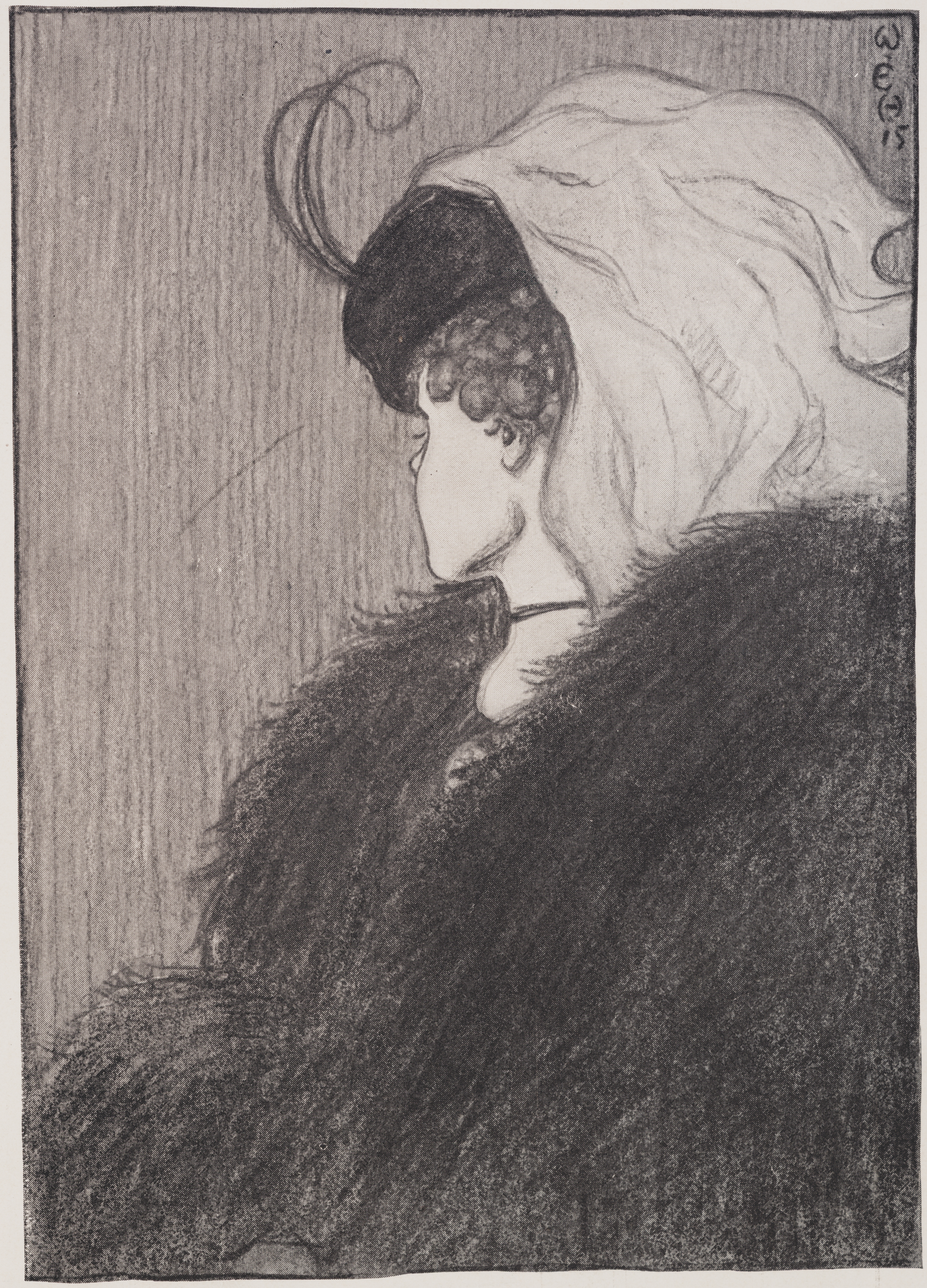 "My Wife and My Mother-in-Law", a famous optical illusion. Appears in Puck, v. 78, no. 2018 (1915 Nov. 6), p. 11.